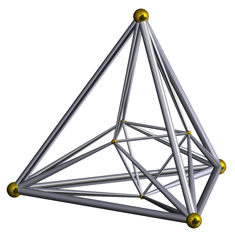 en:16-cell Schlegel diagram, wireframe The copyright holder of this file, Robert Webb, allows anyone to use it for any purpose, provided that the copyright holder is properly attributed. Redistribution, derivative work, commercial use, and all other use is permitted. Attribution: Attribution must be given to Robert Webb's Stella software as the creator of this image along with a link to the website: A complimentary copy of any book or poster using images from the Software would also be appreciated where feasible. This work is free and may be used by anyone for any purpose. If you wish to use this content, you do not need to request permission as long as you follow any licensing requirements mentioned on this page.